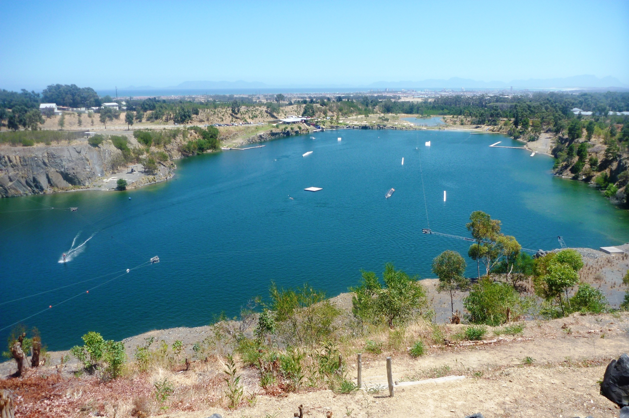 Blue Rock cable ski, Somerset West, Sir Lowry Pass road.